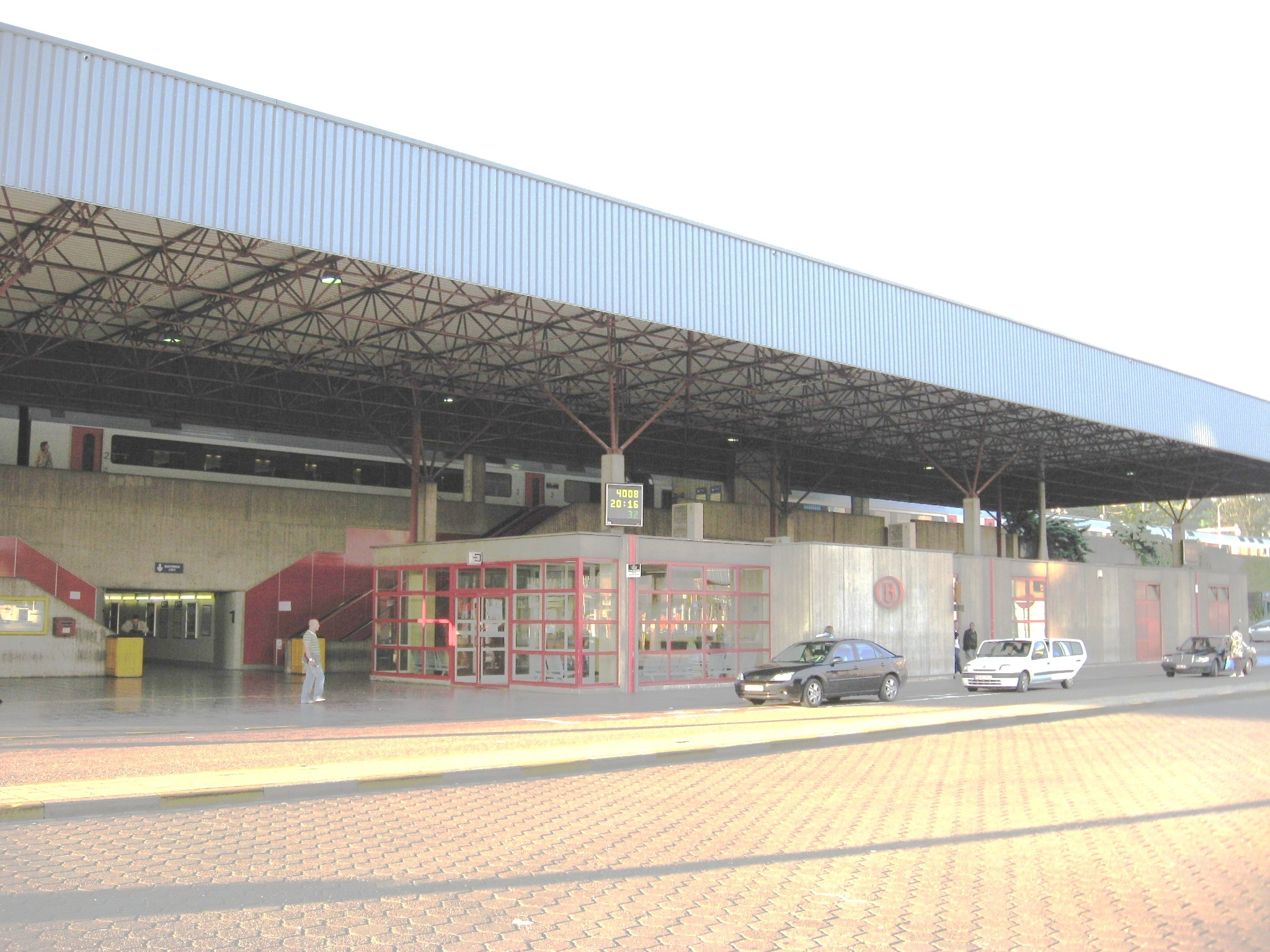 Train station in Genk, Limburg, Belgium